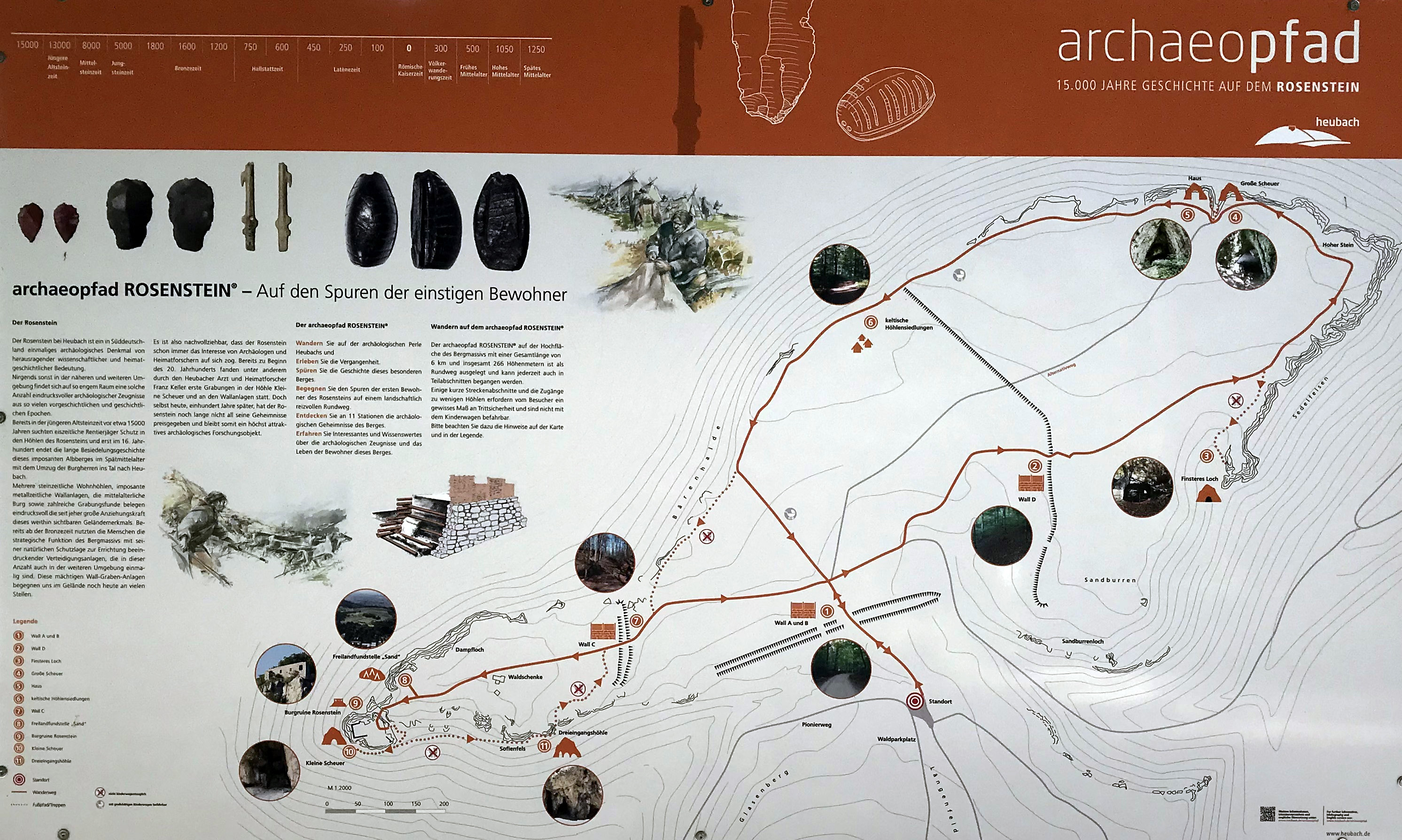 Information board for the "archaeopfad" on the Rosenstein near Heubach